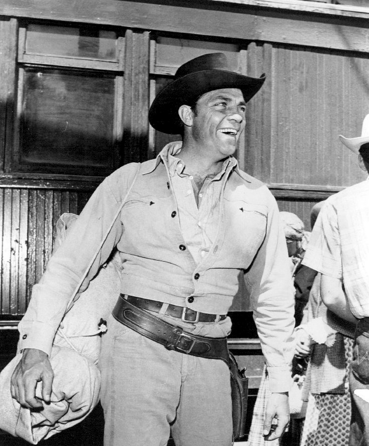 Photo of Dale Robertson as Jim Hardie from the television program Tales of Wells Fargo.